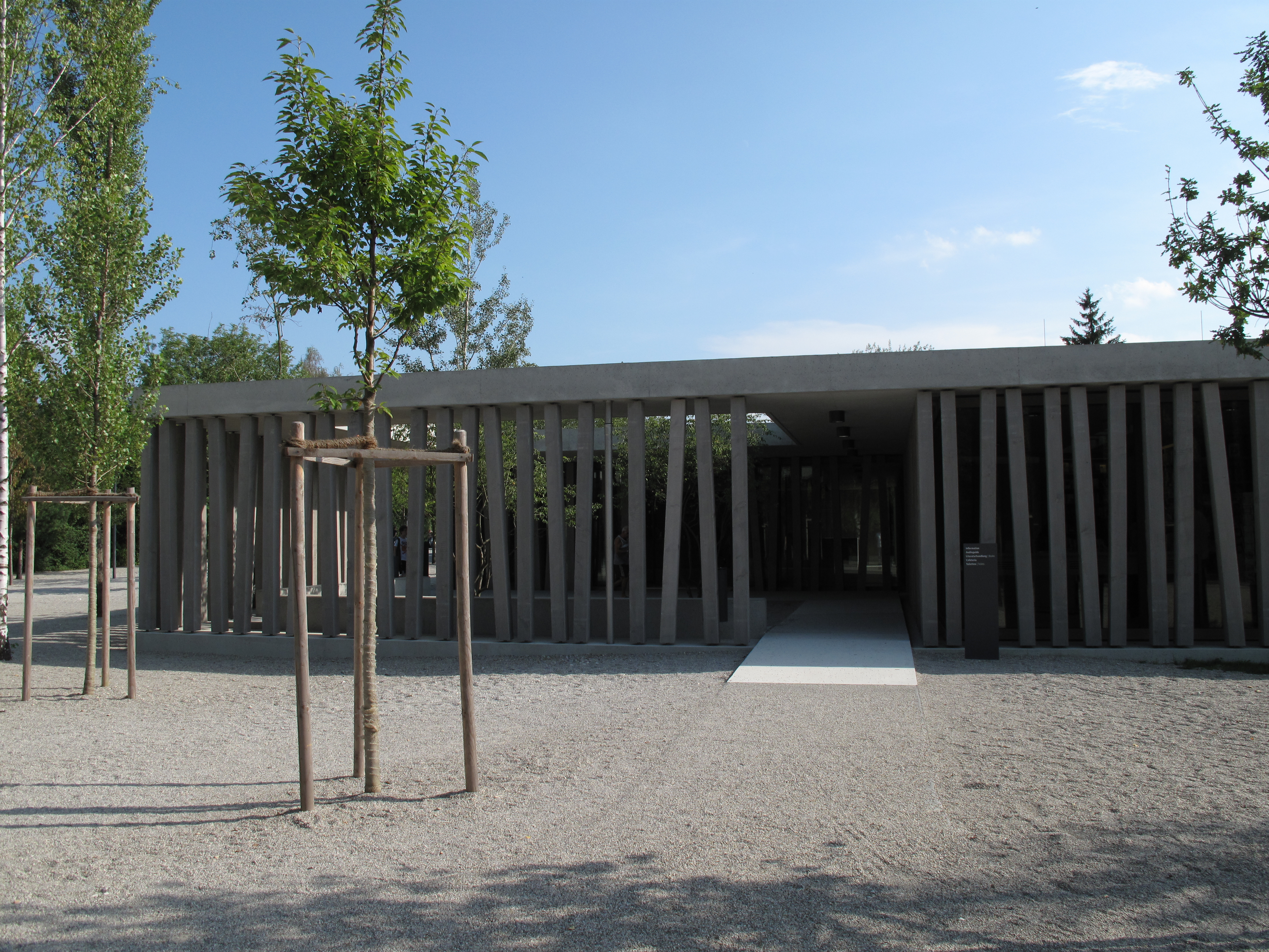 The visitor's centre of the memorial site of the concentration camp in Dachau, Bavaria/Germany.